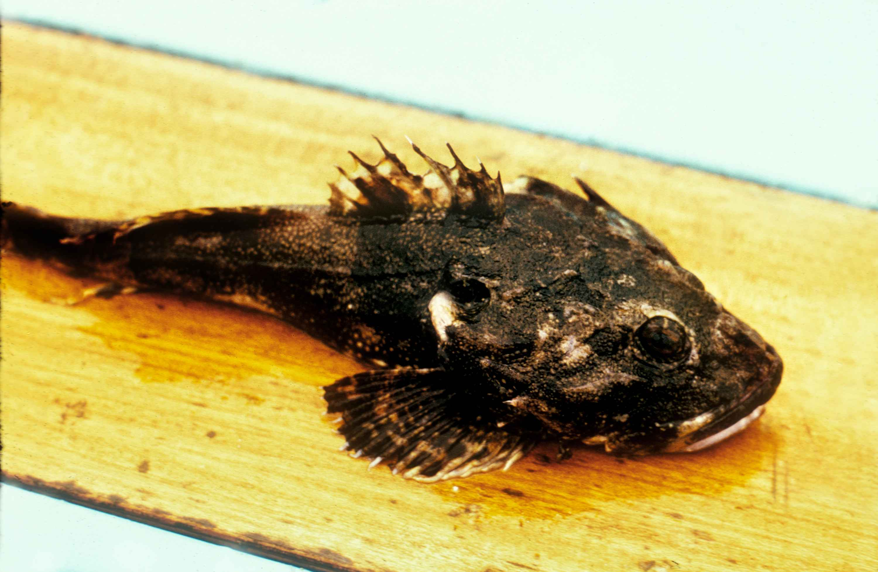 Image title: Great sculpin fish picture Image from Public domain images website